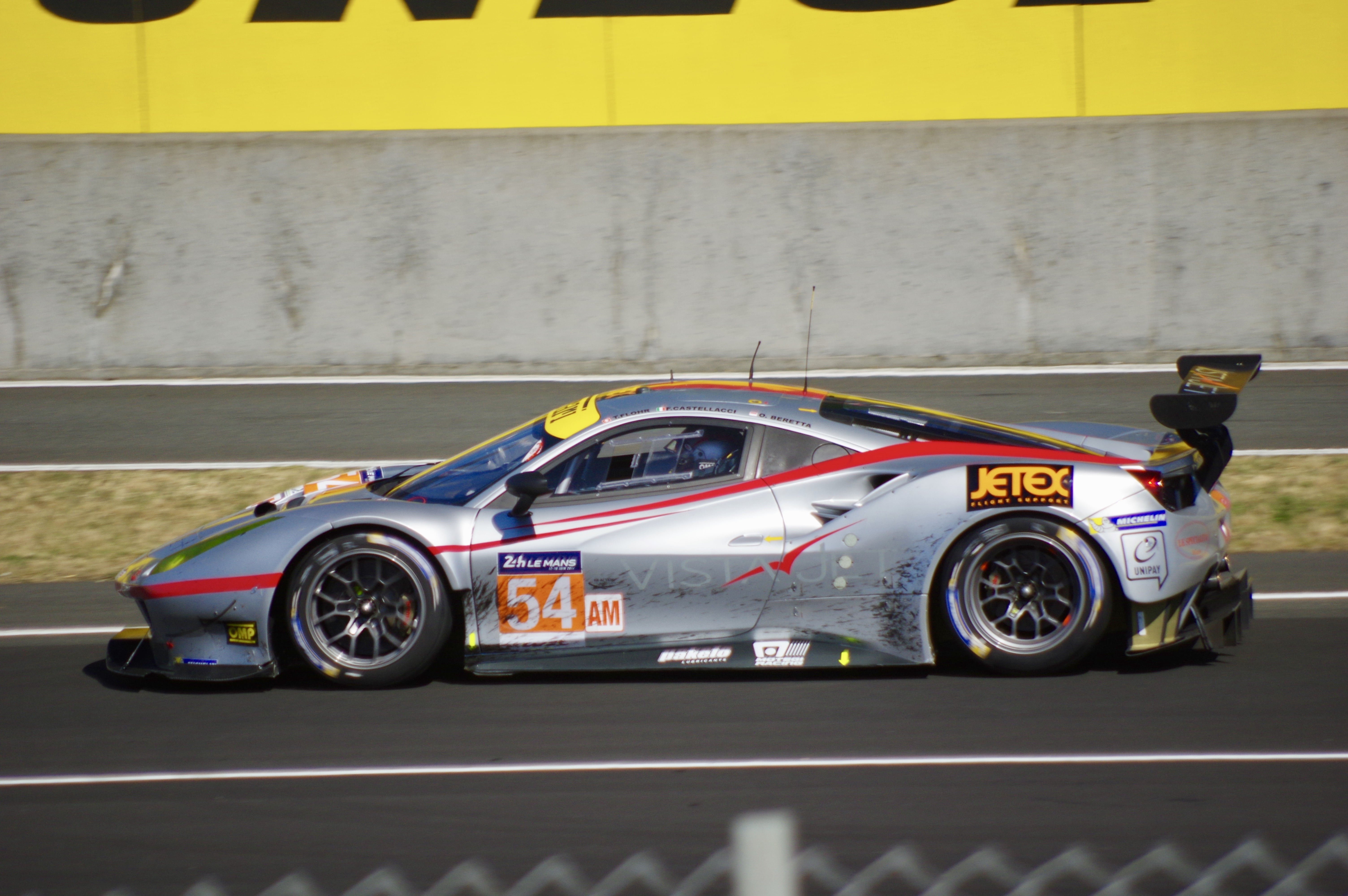 Spirit of Race's Ferrari 488 GTE n°54 driven by Thomas Flohr, Francesco Castellacci and Olivier Beretta at the 2017 24 Hours of Le Mans